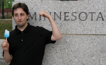 A typical day in the life of a former child actor.